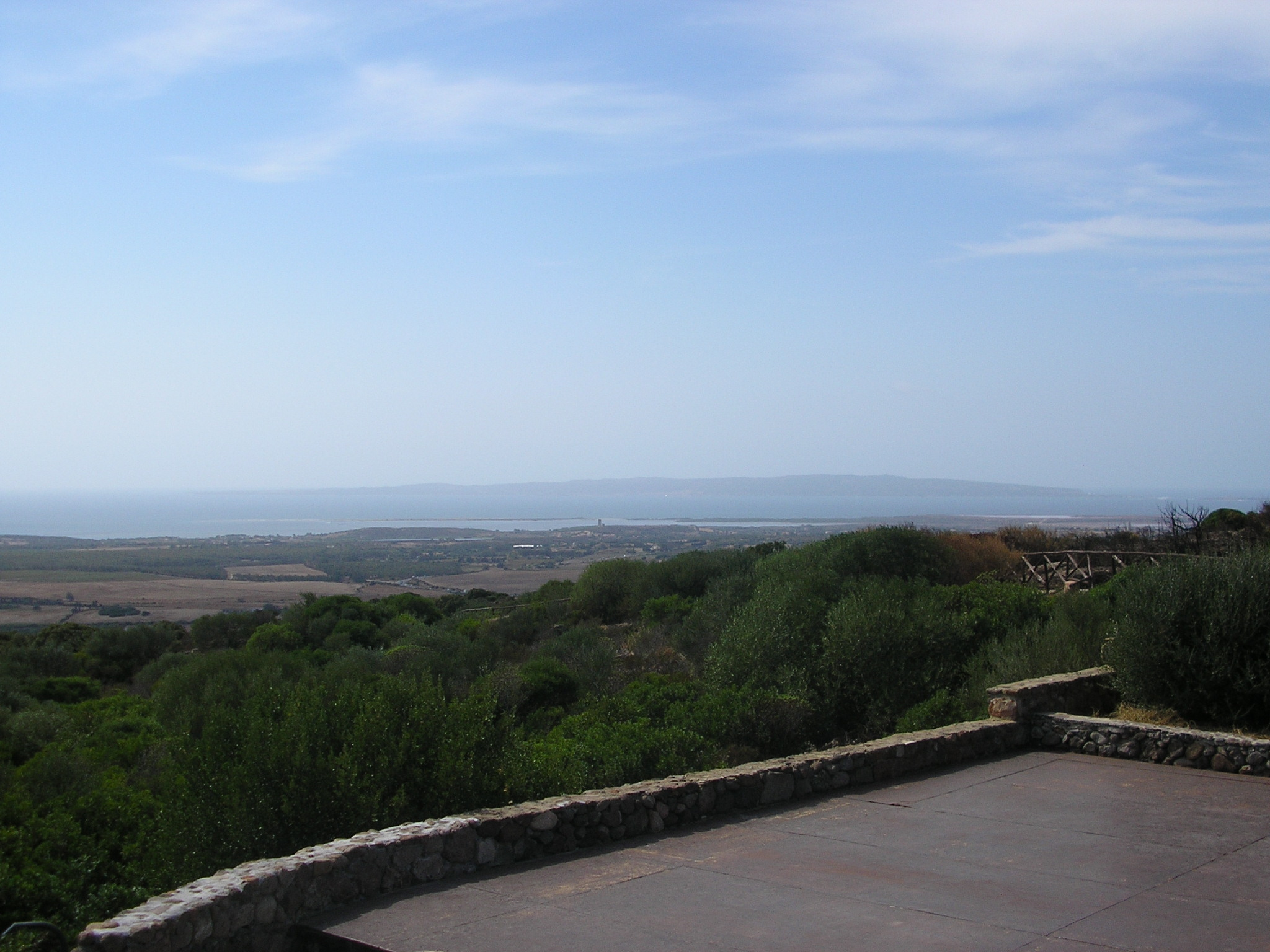 San Pietro (St Peter) island seen from monte Sirai, in the surroundings of Carbonia, Sardinia, Italy